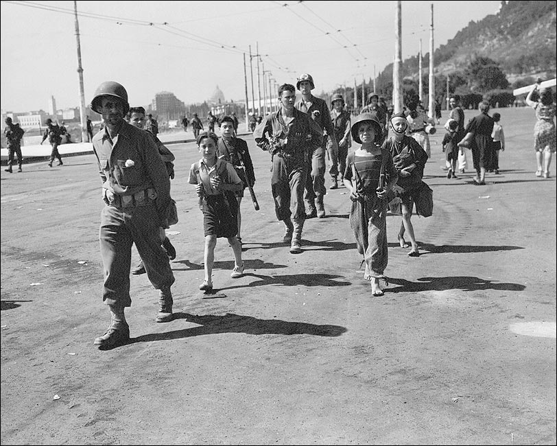 Picture taken during the Liberation of Rome. Italian children helping the American infantry soldiers, carrying their equipment.